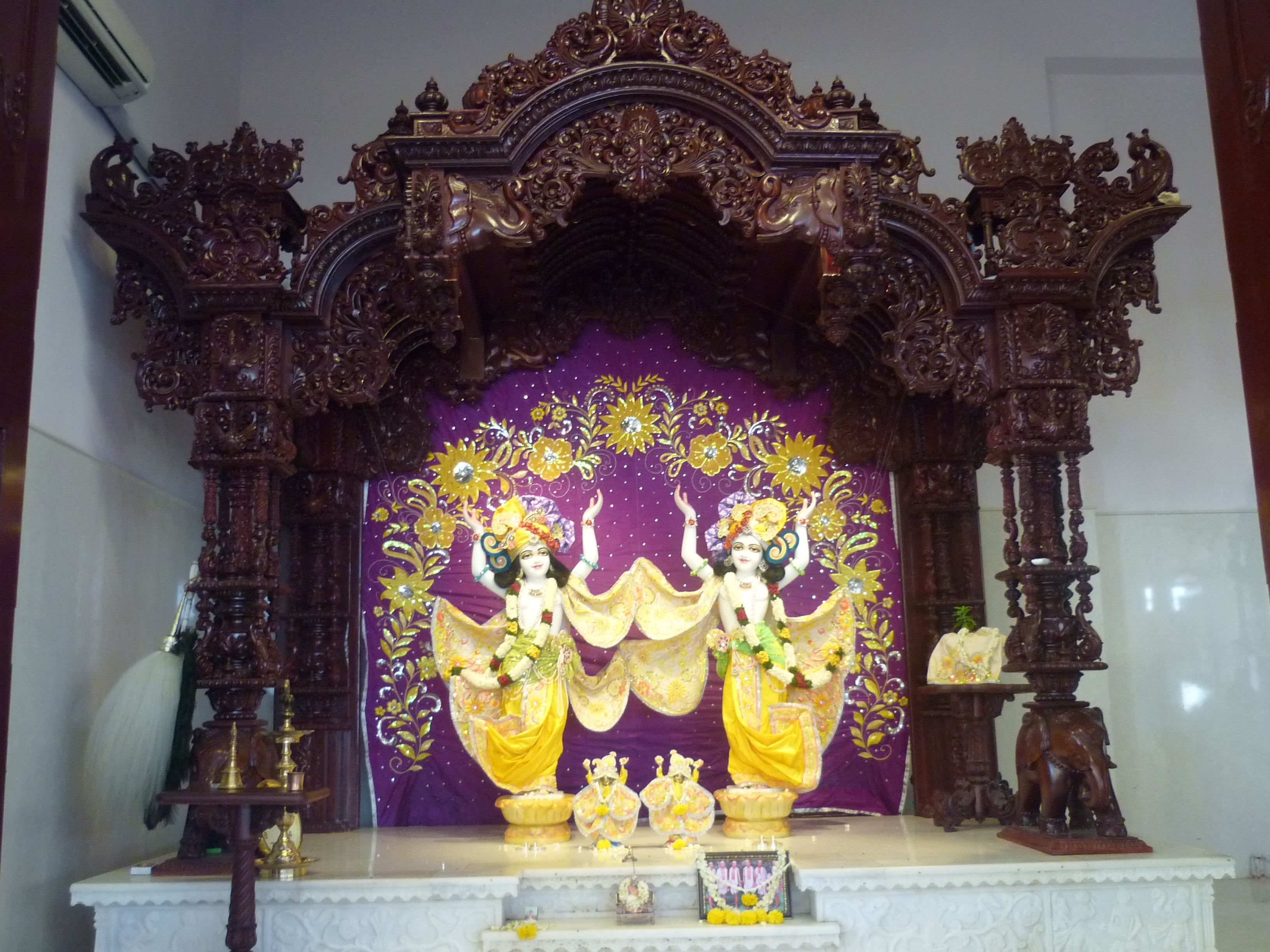 ISKCON Temple Chennai, Statues of Lord Chaitanya and Lord Nityananda, taken on 1-May-2012